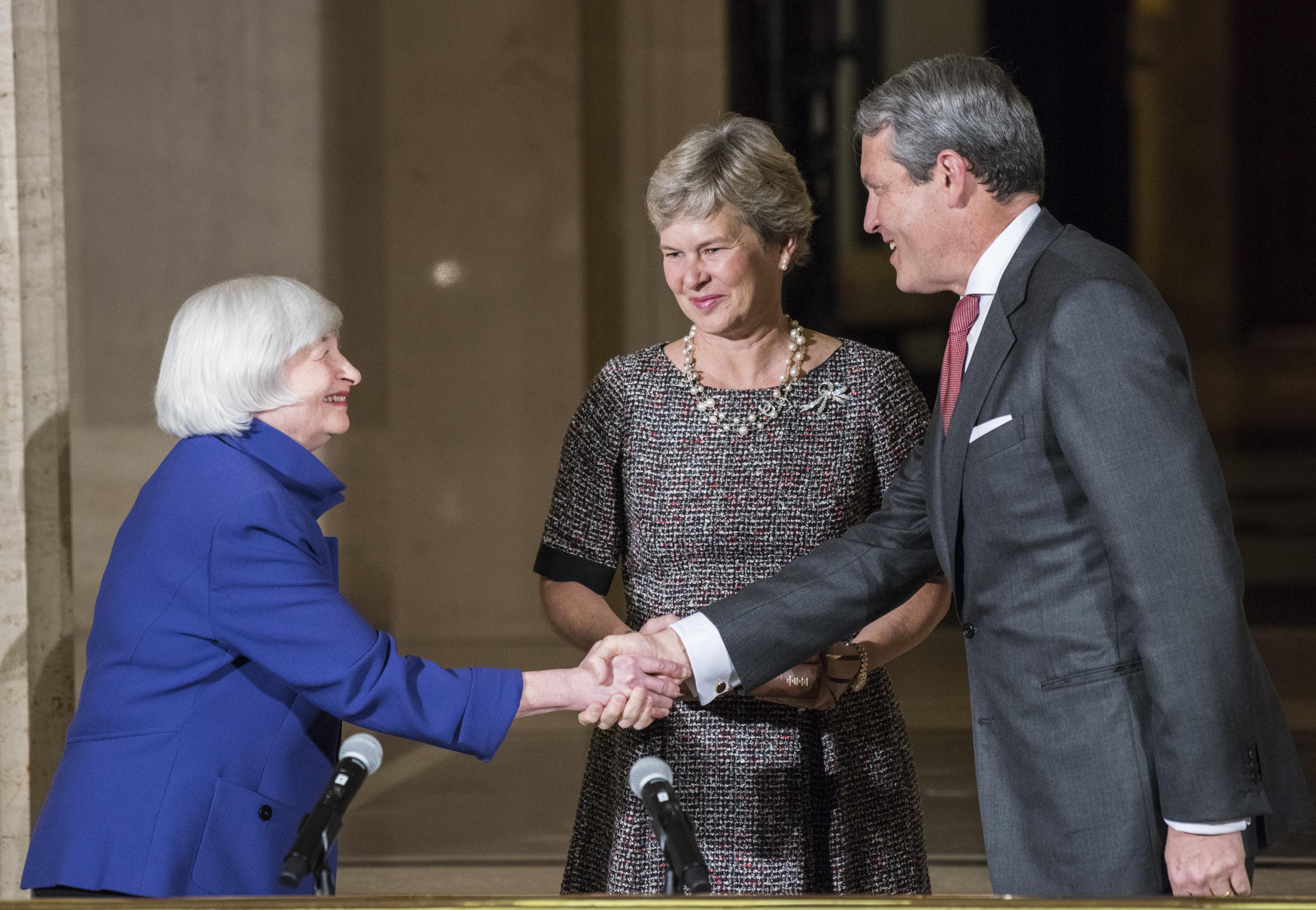 Randal K. Quarles is sworn in as a member of the Board of Governors and as Vice Chair for Supervision.